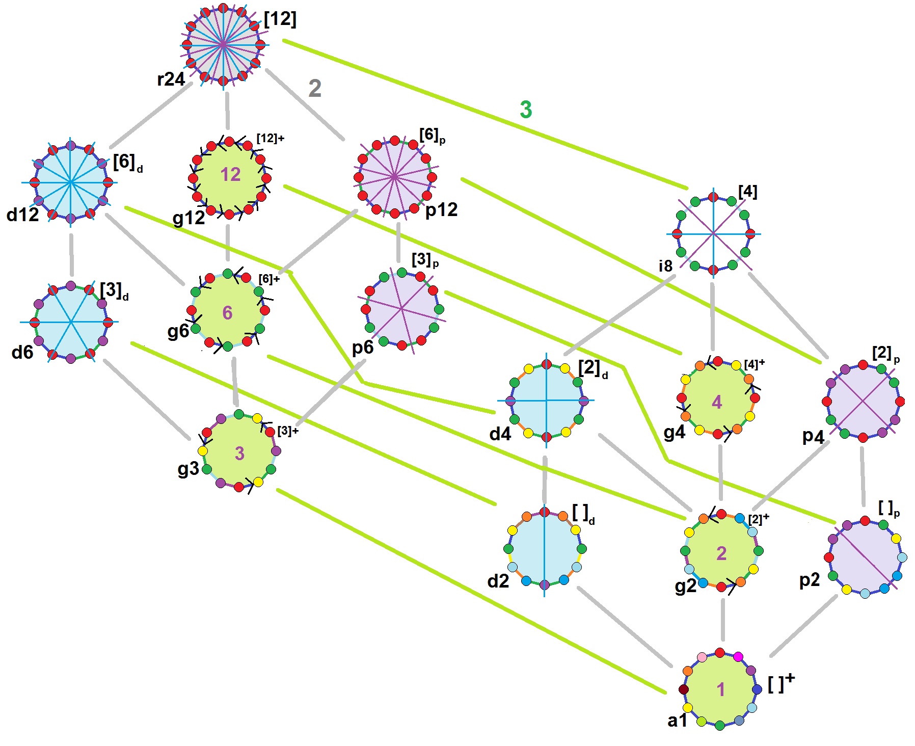 Symmetries of a regular dodecagon, with markups Reworked from "The Symmetries of Things", Chapter 20 The regular dodecagon has Dih12 dihedral symmetry, order 24, and 15 lower dihedral and cyclic symmetries. The dihedral symmetries pass through vertices (d) and edges (p), or both (i). Cyclic symmetries in the middle column are labeled as g for their central gyration orders.